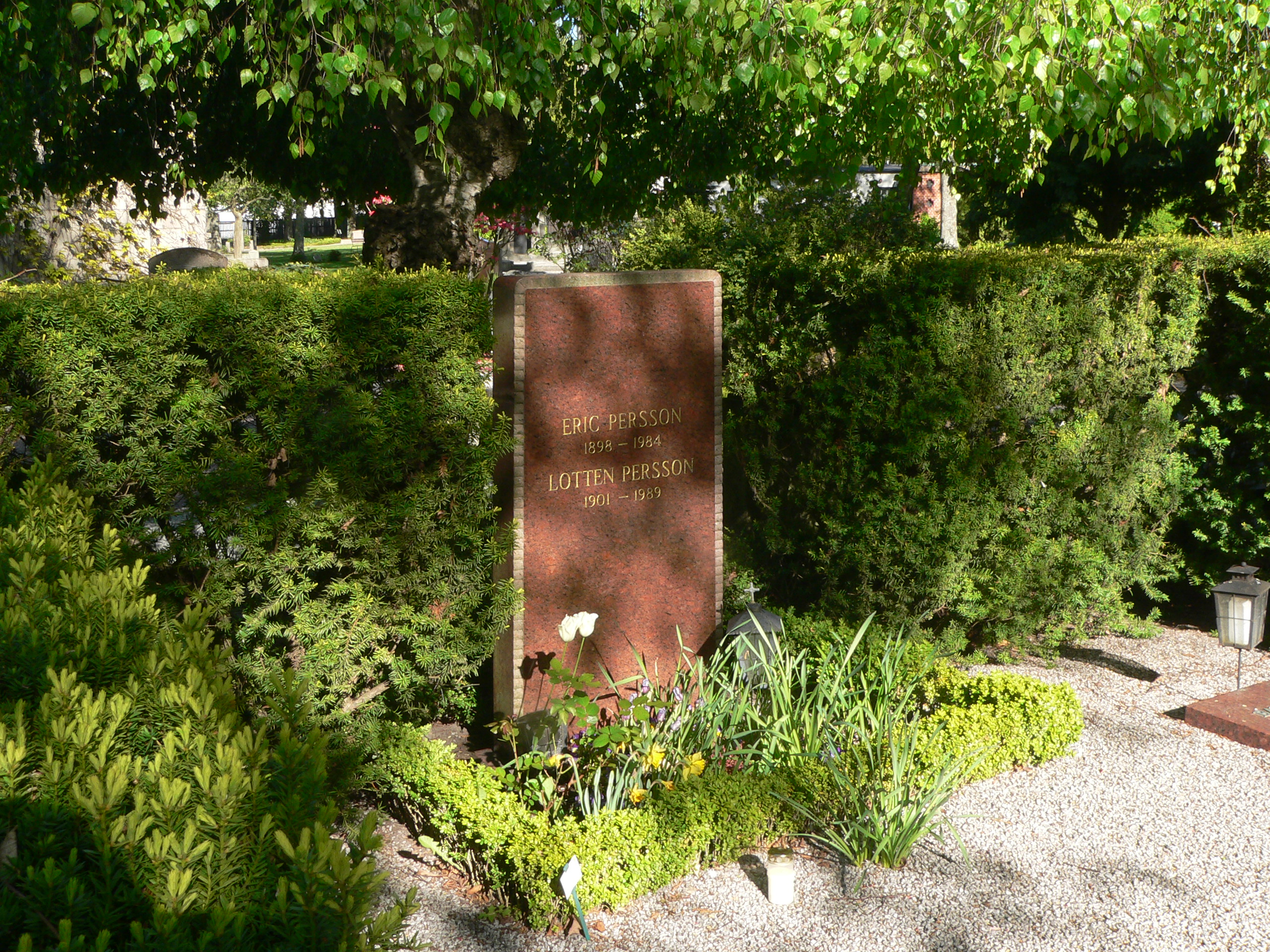 Tomb of Eric Persson at S:t Pauli Mellersta Kyrkogård (Annelund section, grave 10)